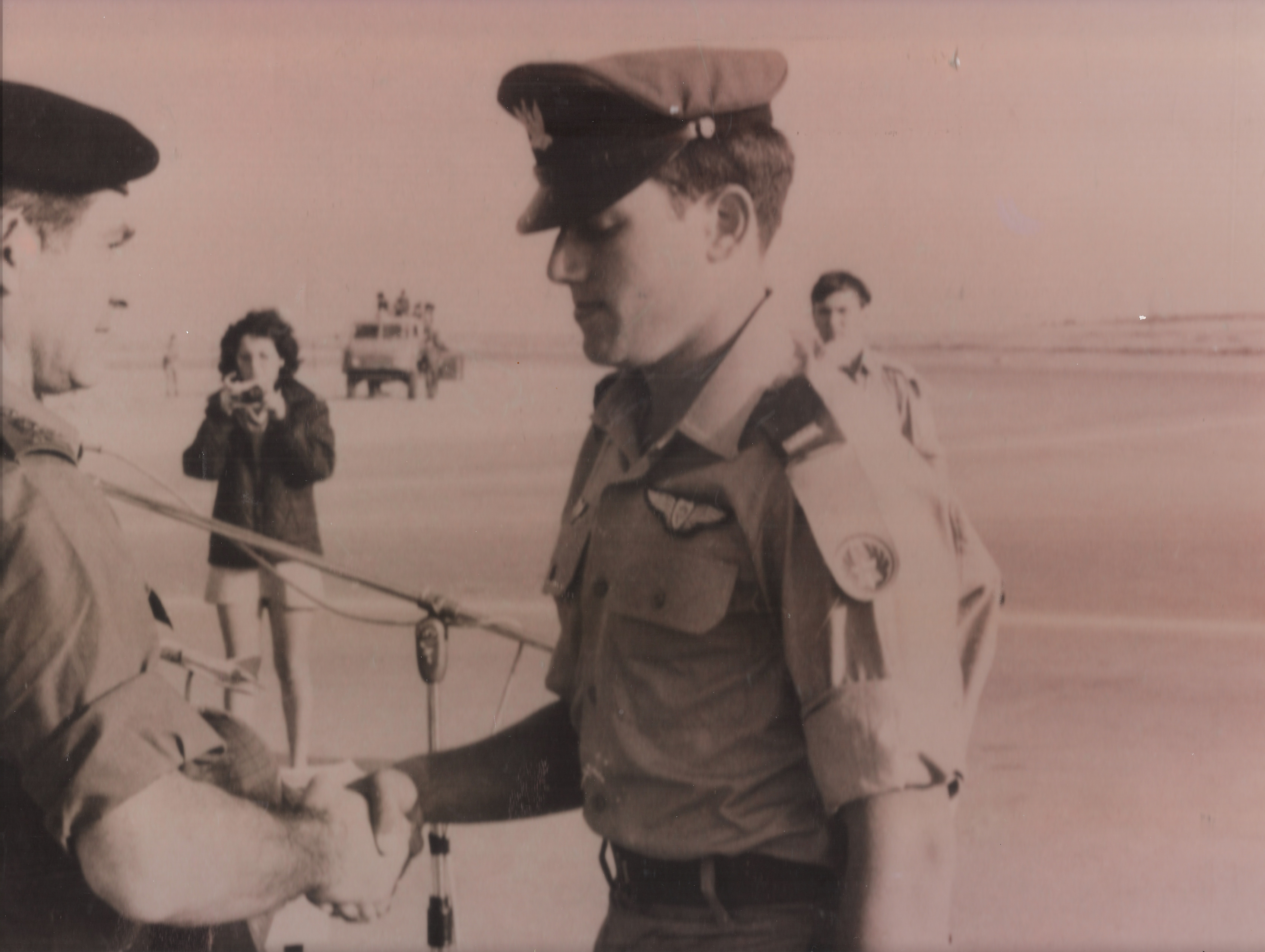 Graduated as an outstanding cadet in the fighter-navigation course.